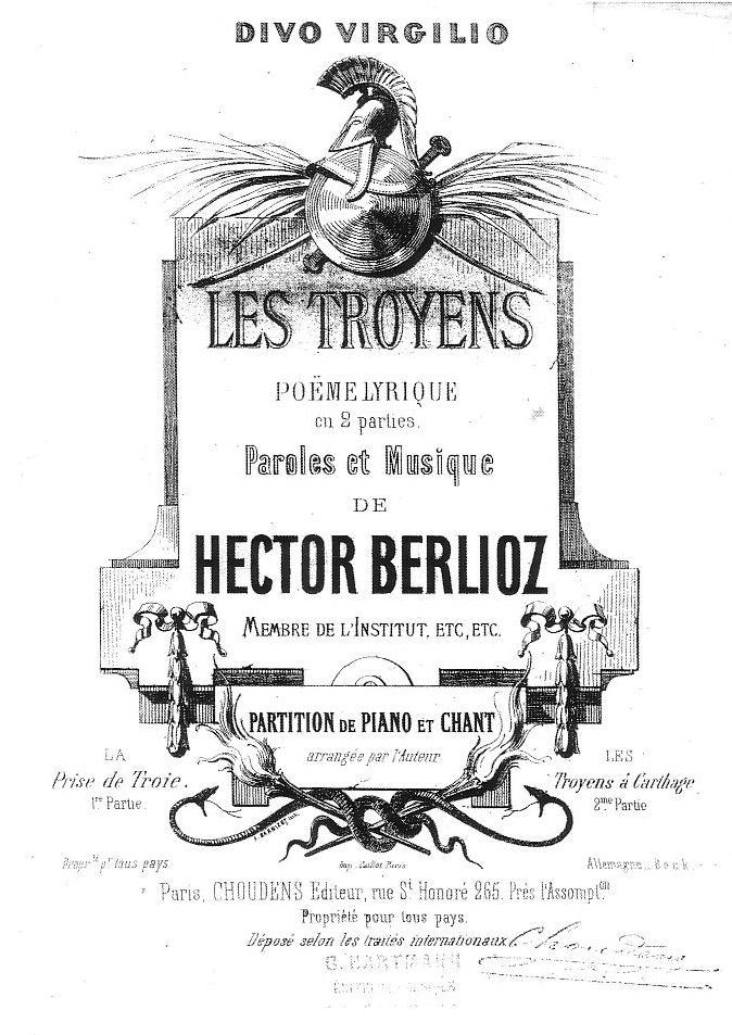 Poster made for premiere of Hector Berlioz' Les Troyens in 1863.